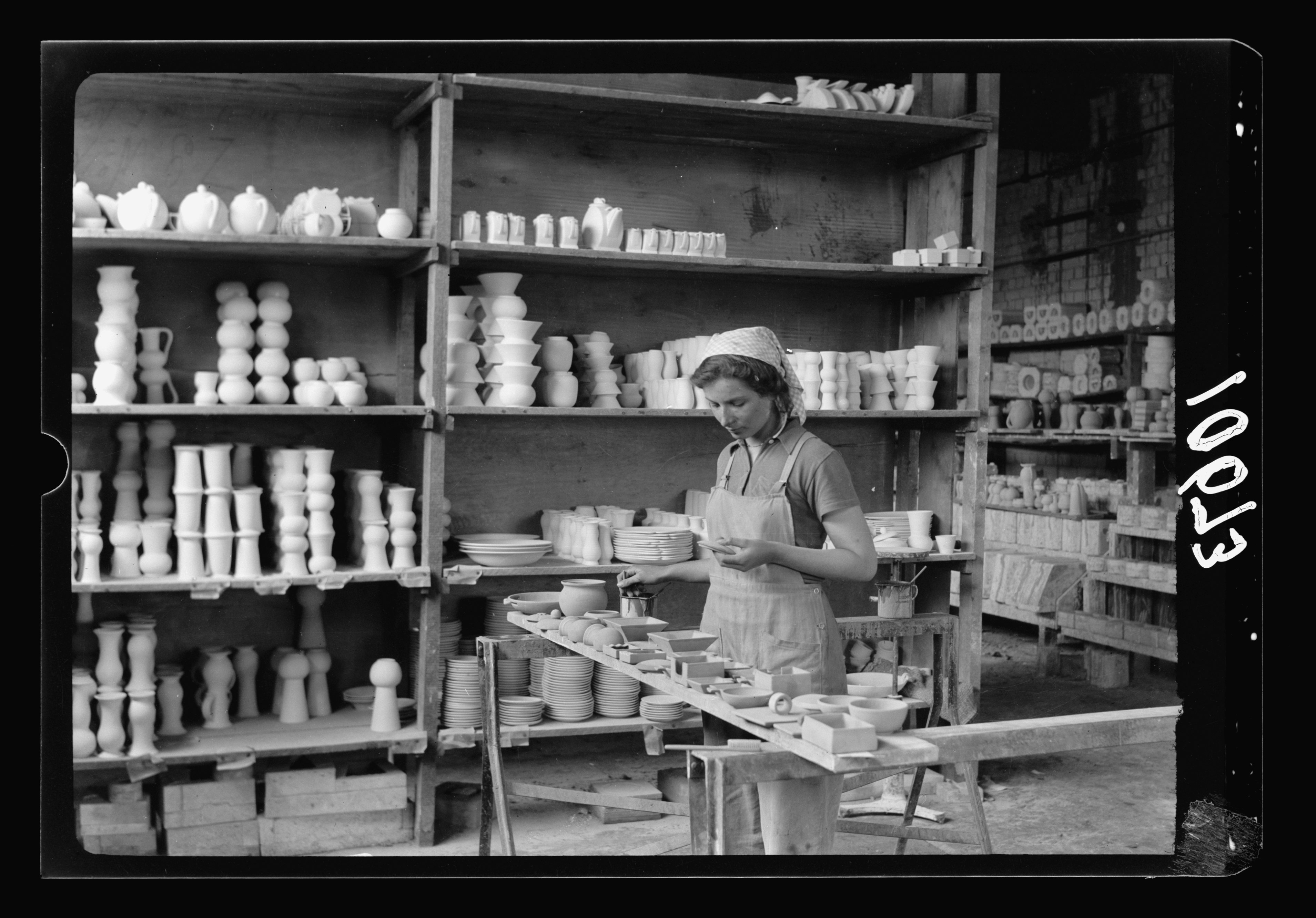 Title: Jewish factories in Palestine on Plain of Sharon & along the coast to Haifa. Haifa. The "Kadar" Ltd. Ceramics. Hand painting on burnt articles Abstract/medium: G. Eric and Edith Matson Photograph Collection Physical description: 1 negative